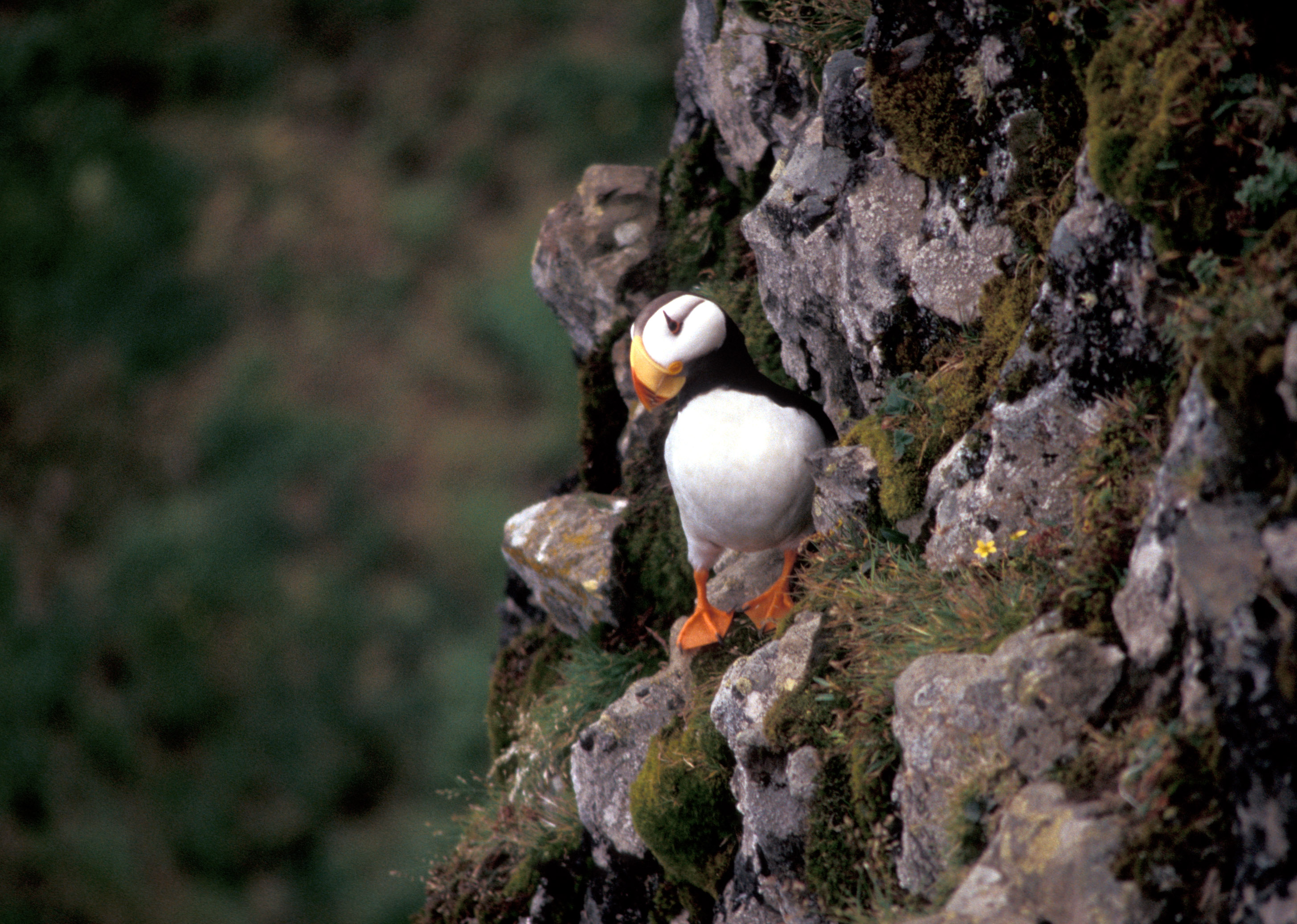 Horned Puffin (Fratercula corniculata) on Hall Island, Bering Sea, Alaska